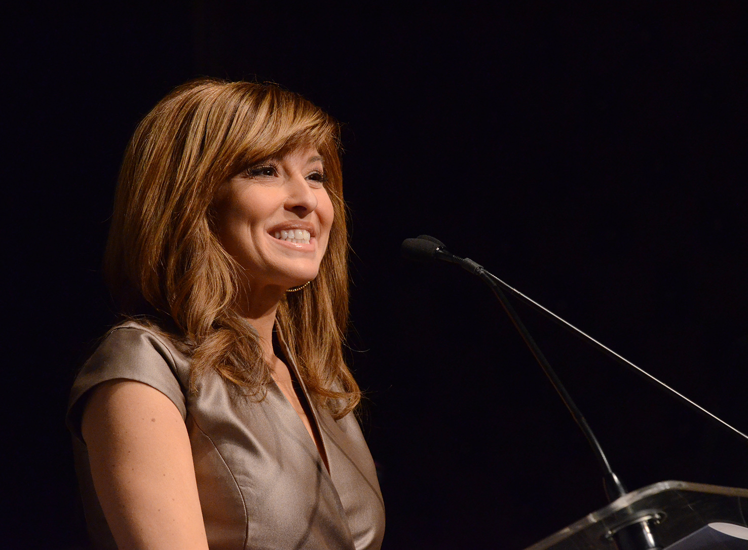 The Second Annual Daily News Hometown Heroes in Transit Awards at the Edison Ballroom on Wed., January 29, 2014 recognized 15 exemplary MTA New York City Transit employees. WCBS-TV anchor Mary Calvi. Photo: Marc A. Hermann / MTA New York City Transit